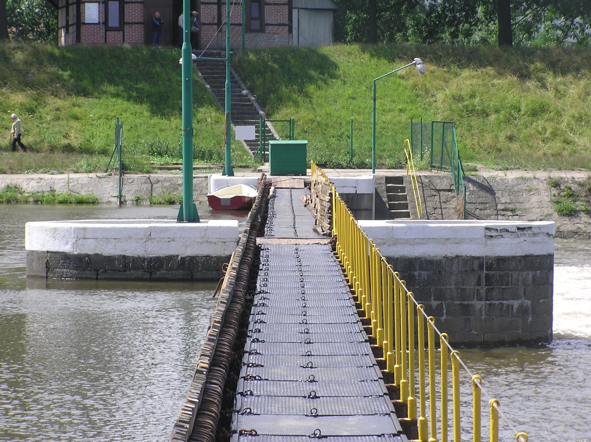 Wrocław, Psie Pole Weir